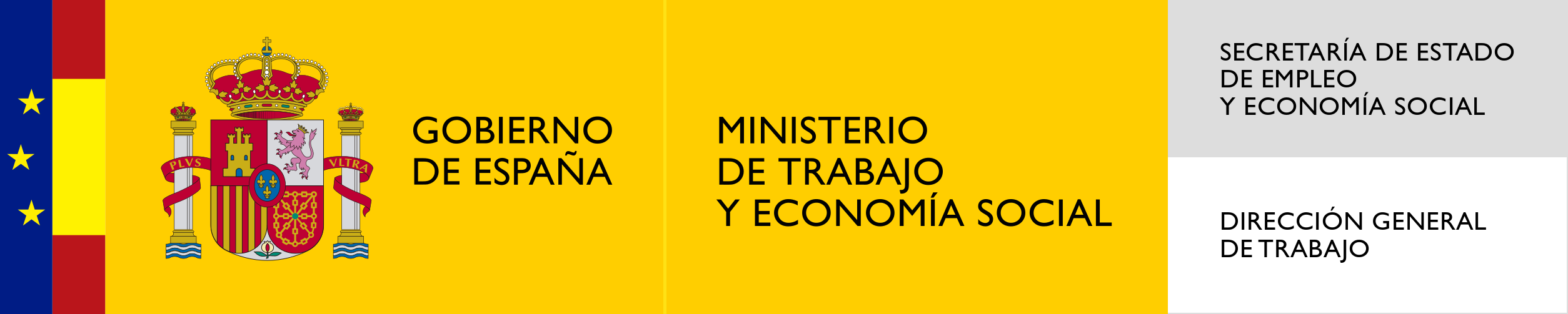 Logo of the Directorate-General for Labour of the Government of Spain.